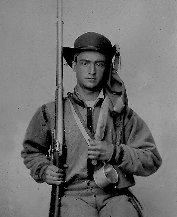 Andrew J. Winn, born in Brunswick County, Virginia, about 1838, and later moved to Henry County, Virginia. He enlisted as a soldier in the Confederate Army on June 22, 1861, in Henry County. He served in Company F, 42nd Virginia Infantry. Wounded at the Battles of Kernstown, Virginia, Chancellorsville and Spotsylvania Courthouse, Winn ultimately died of his last wound after being captured by Northern forces and getting a field dressing on May 12, 1864. He likely died within days, and his grave site is unknown.